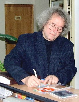 This image has been copied from the source with the permision of webmaster (and with the consent of the director of the service). The permission was granted to Stan Zurek (Zureks) via email from Mirosław Domański Tadeusz Woźniak, Polish musician